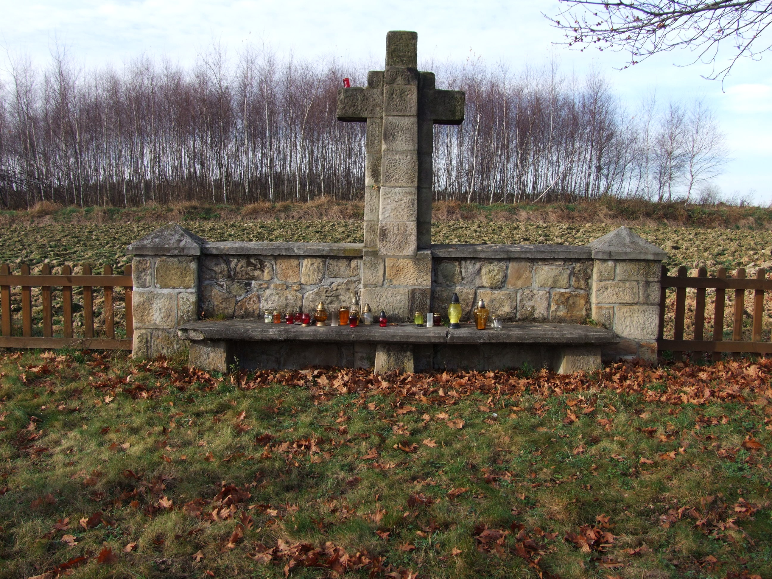 World War I Cemetery nr 305 in Łąkta Dolna